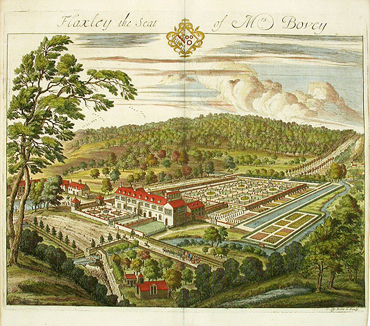 View of Flaxley Abbey, Gloucestershire, England.